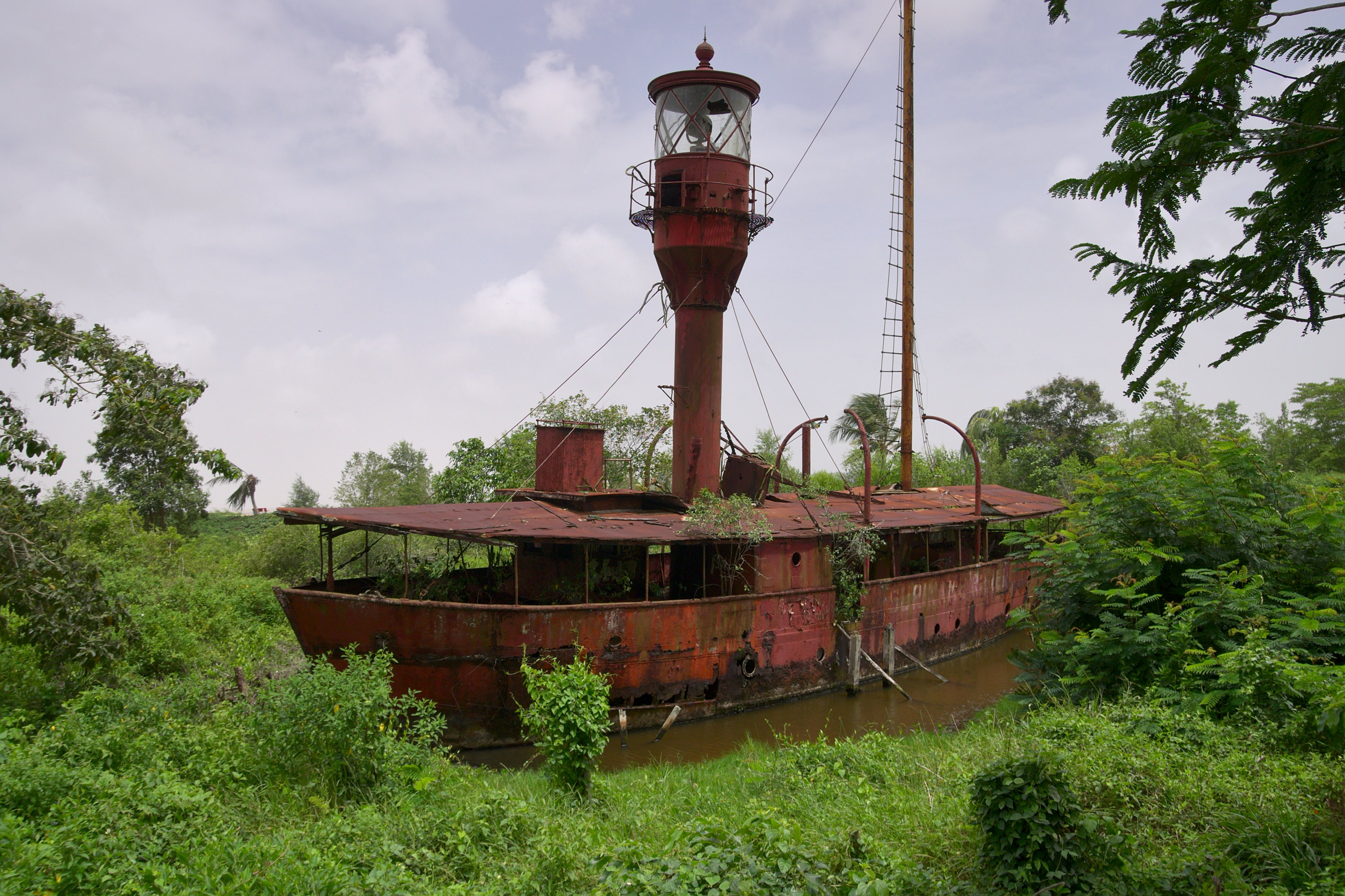 Light Ship in the Suriname River